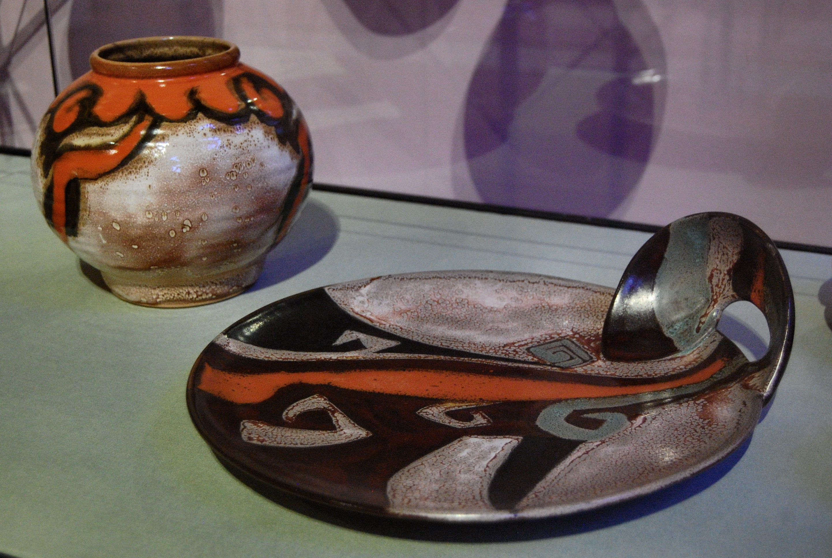 Earthenware designed by Amp Smit